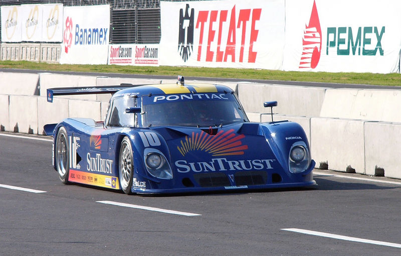 Suntrust Pontiac-Riley Daytona Prototype, photographed at the Autodromo Hermanos Rodriguez, Oct. 2005